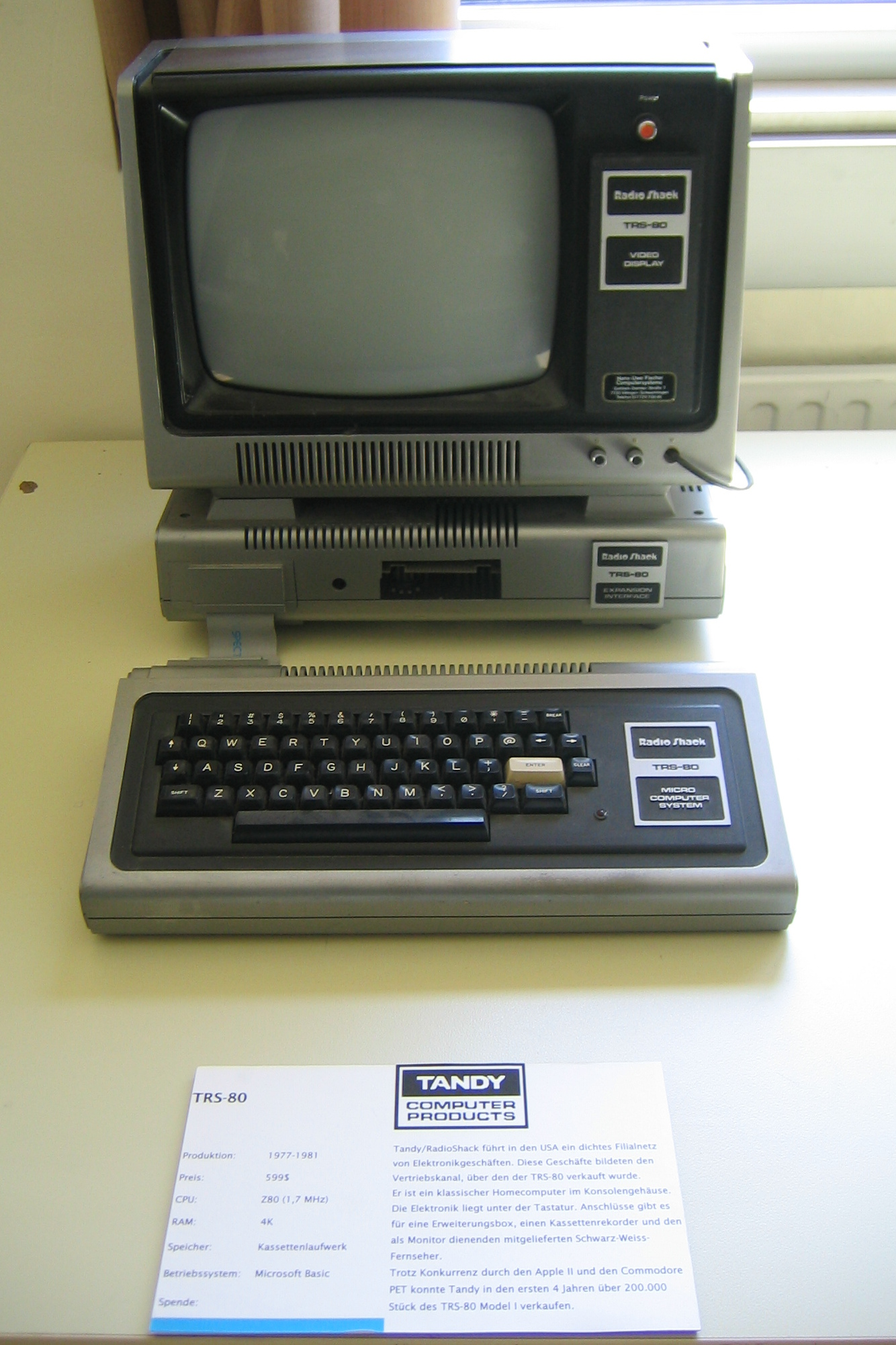 Tandy Corporation (Radio Shack) TRS-80 Model I computer system